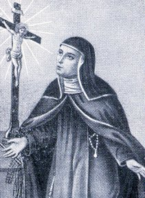 Print with Maria Lorenza Longo's portrait